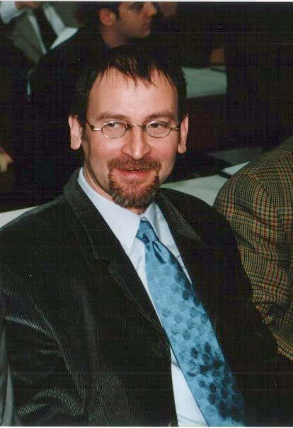 László Szájer is Hungarian politic, 2000. My own picture. Creator by Rita Molnár. 2000